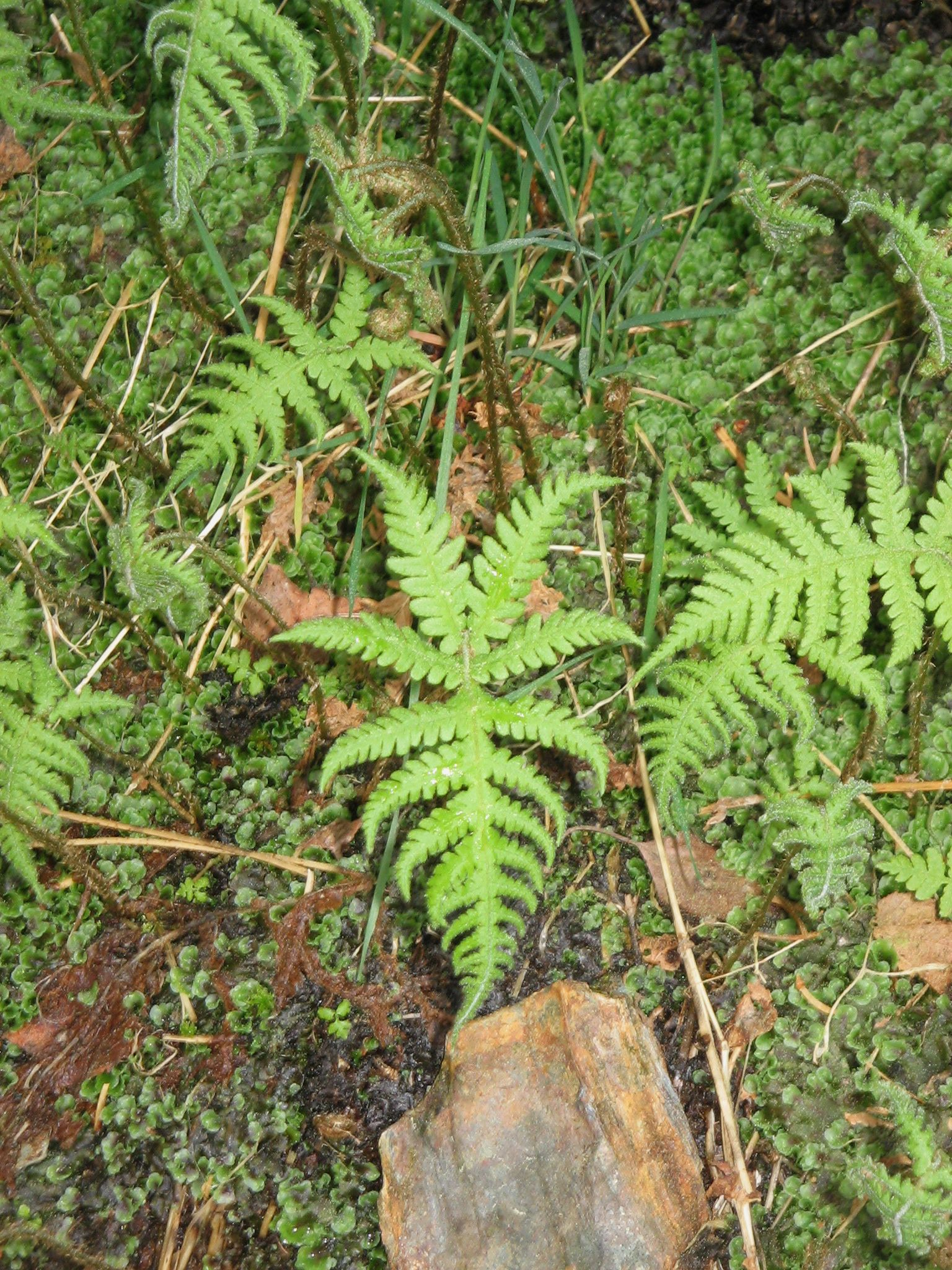 Phegopteris connectilis